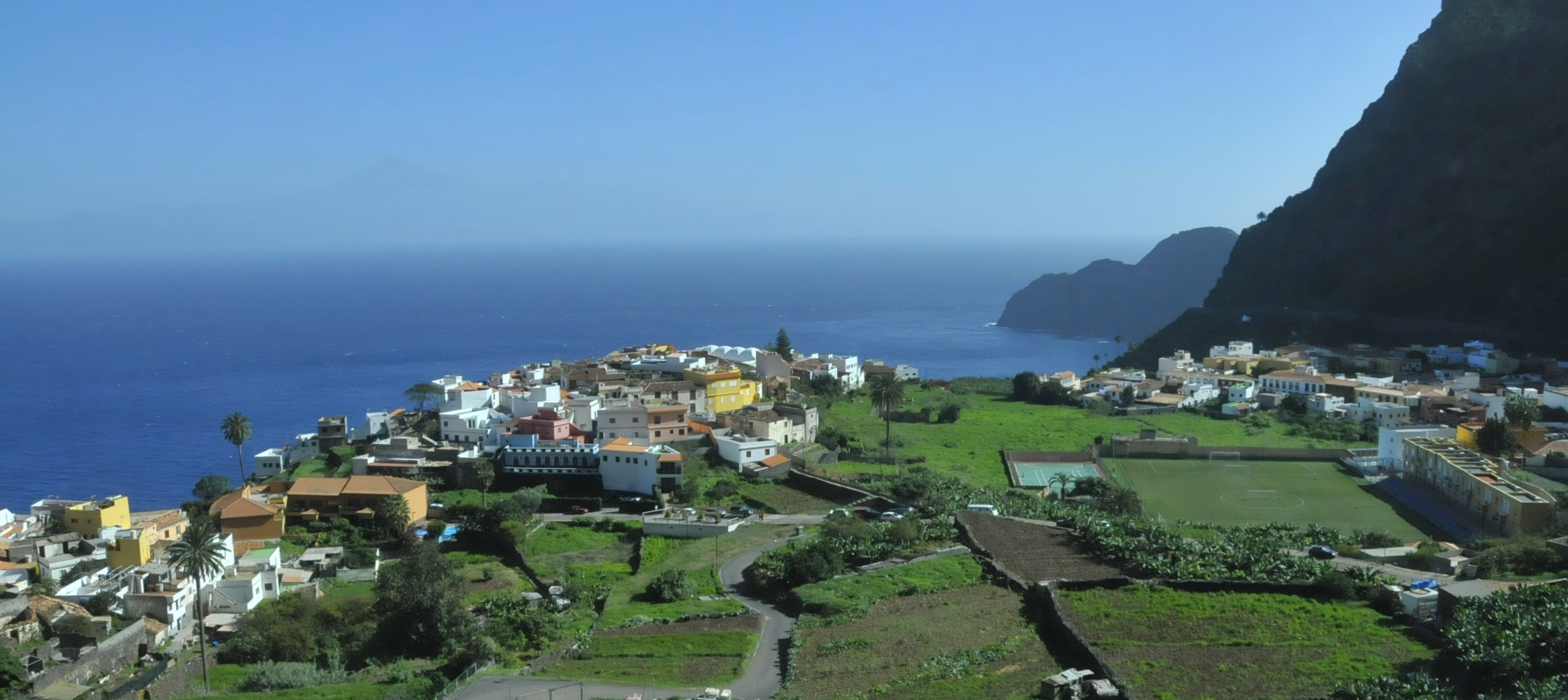 View of houses in a part of Agulo on La Gomera